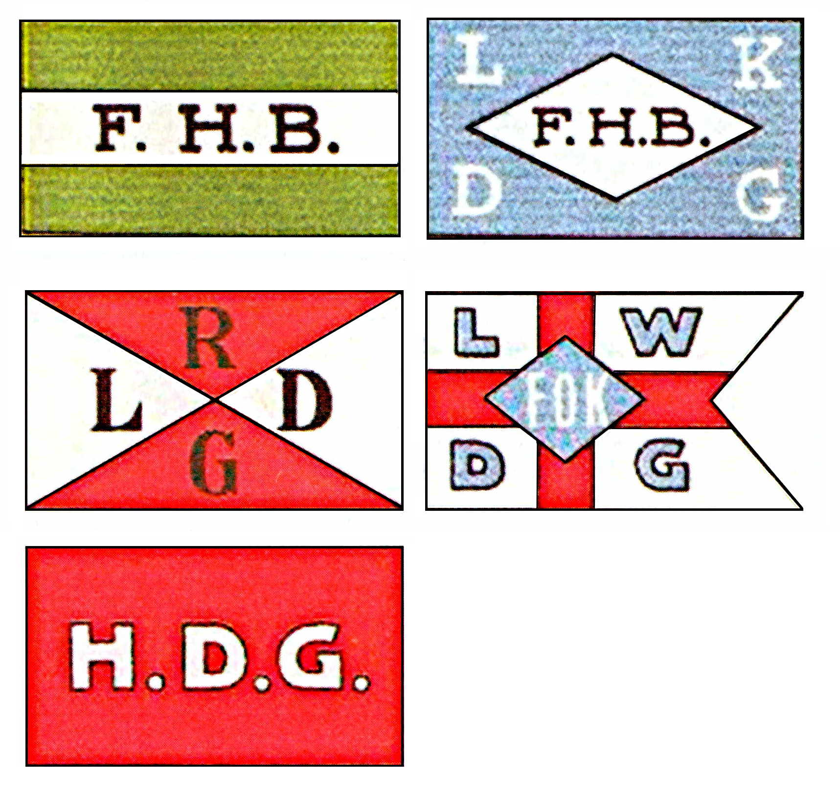 House flags of shipping companies owned by Friedrich Heinrich Bertling